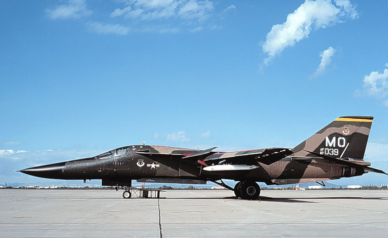 366th Tactical Fighter Wing F-11A 67-0039